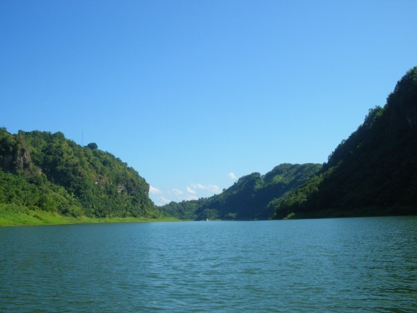 A View Of Kaptai lake.